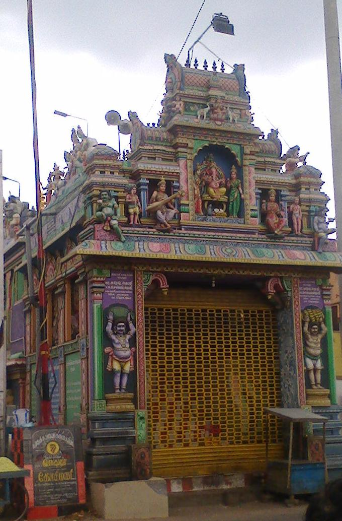 கும்பகோணம் உச்சிப்பிள்ளையார் கோயில்